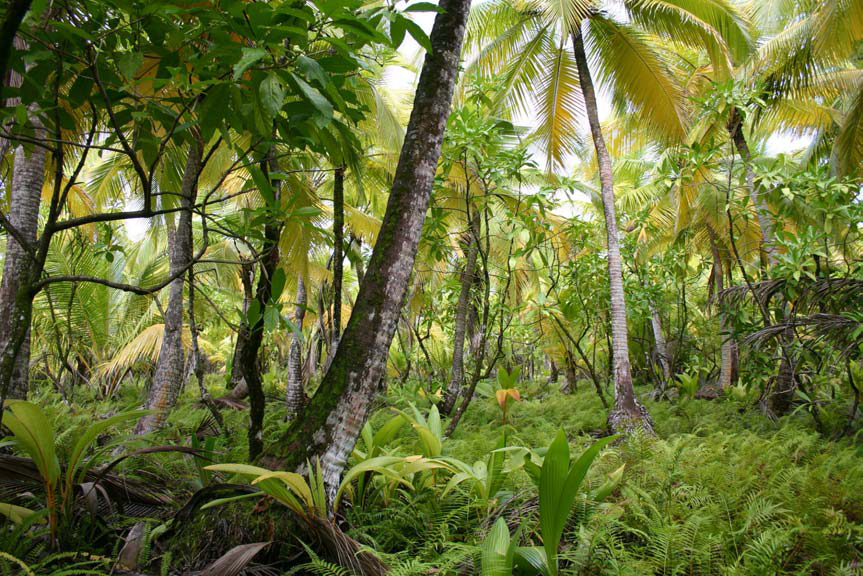 Mixed species fresh-water marsh plant community, Diego Garcia, British Indian Ocean Territory